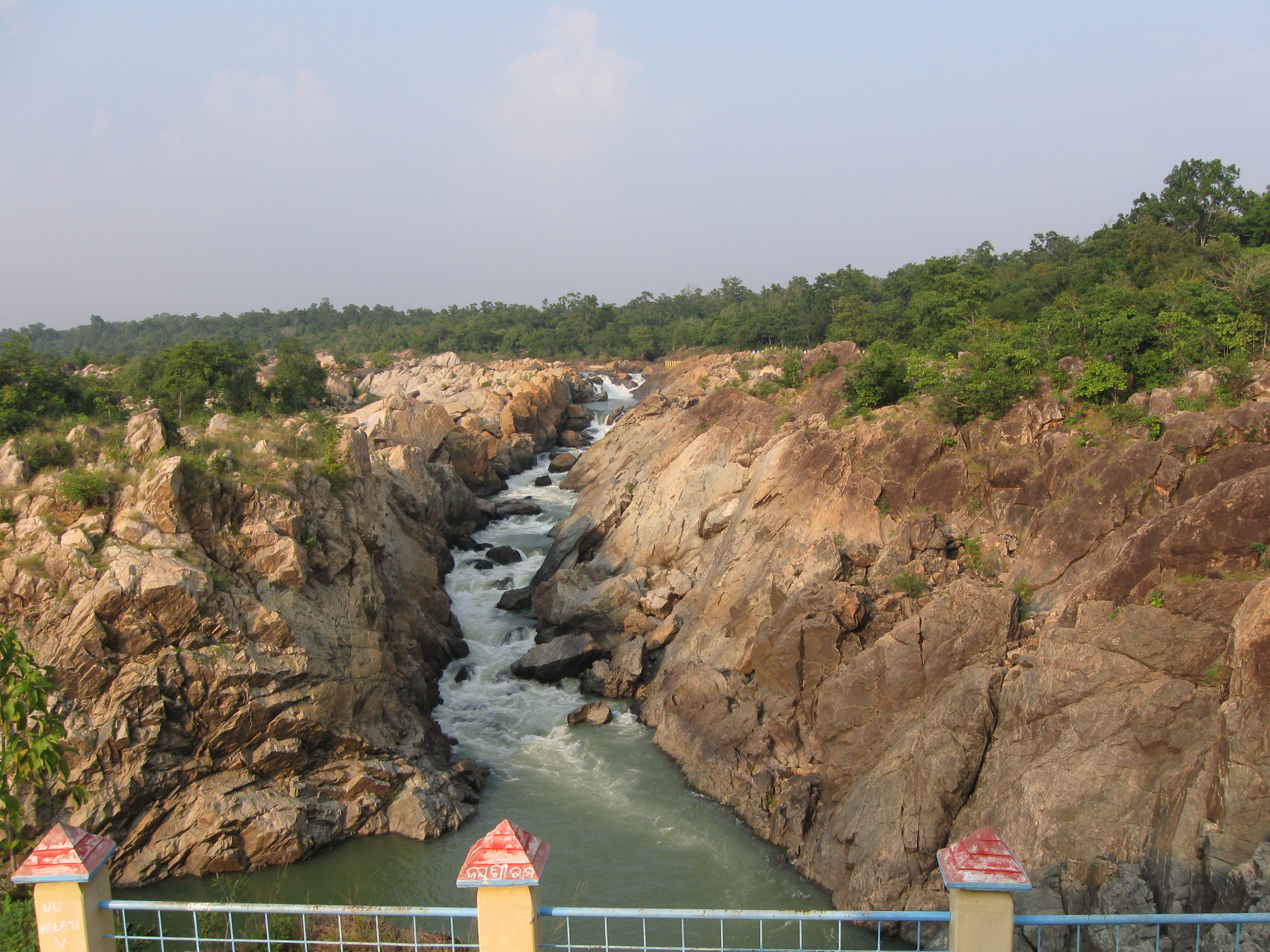 Bhimkund stream odisha